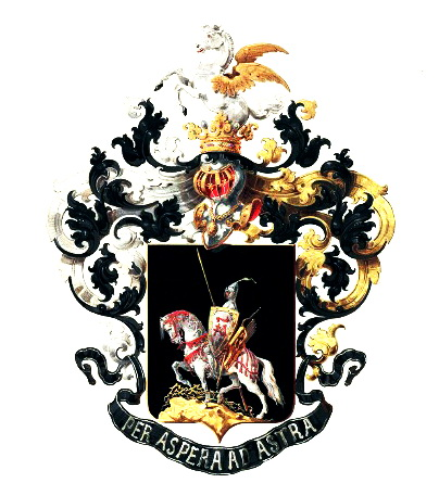 Coat of arms of the family Mikhail Osipovich Mikeshin